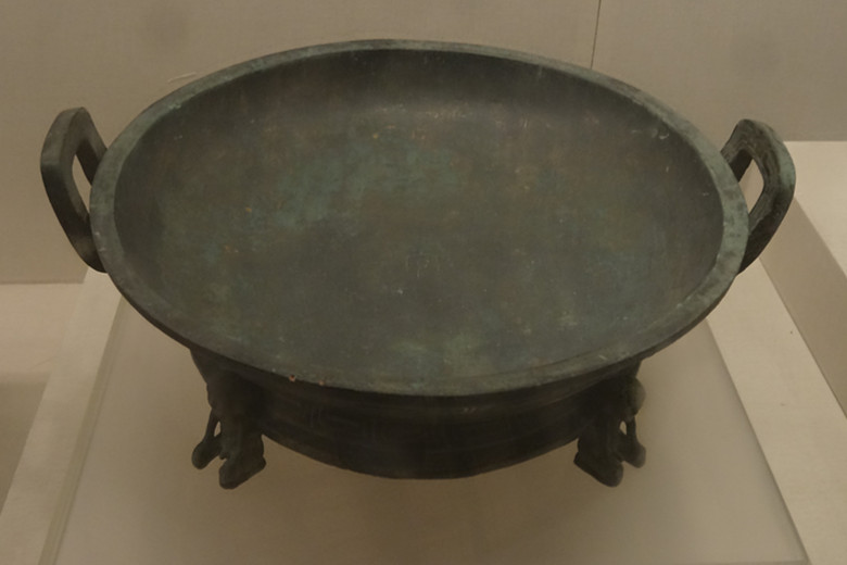 Ta pan(它盘), Tray with Character "Ta", Chinese bronze, excavated from a bronze hoard, Qijia village, Fufeng County, Shaaxi Province.